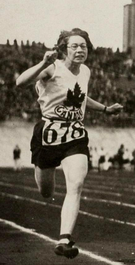 Ethel Smith (left) and Bobbie Rosenfeld (second from left) of Canada, perhaps at semi-final in the women's 100 meters at the 28th Summer Olympic Games in Amsterdam